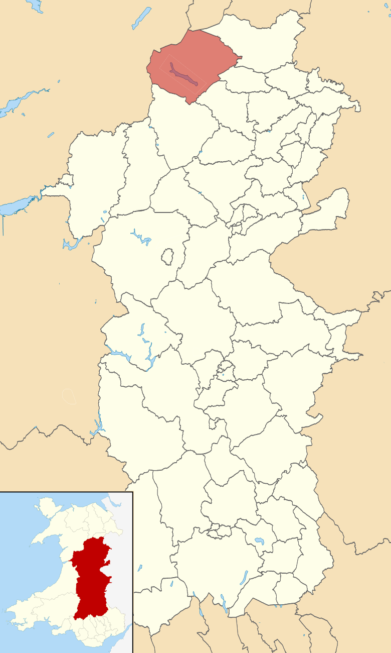 Location map of Llanwddyn electoral ward in the north of Powys, Wales, which covers the communities of Llanwddyn, Llangynog and Pen-y-Bont-Fawr